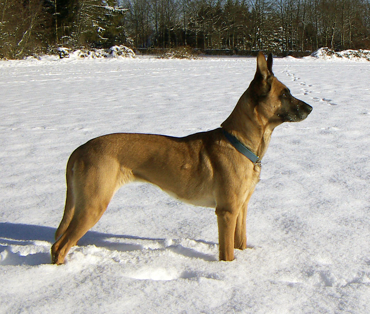 Female Malinois, 7 years old.